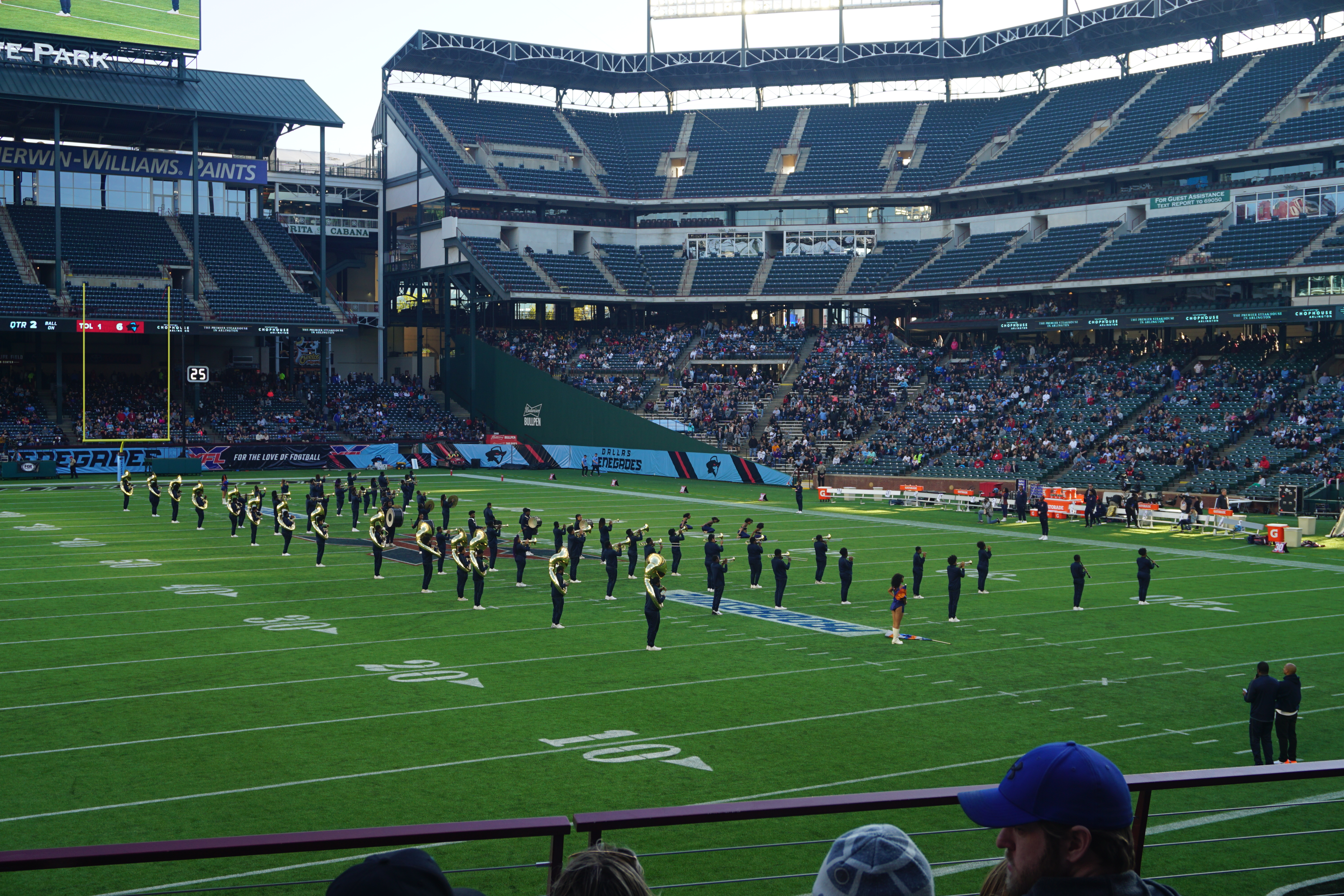 The Langston University Marching Pride performing during halftime of the New York Guardians vs. Dallas Renegades game at Globe Life Park in Arlington, Texas (United States). New York won 30–12.